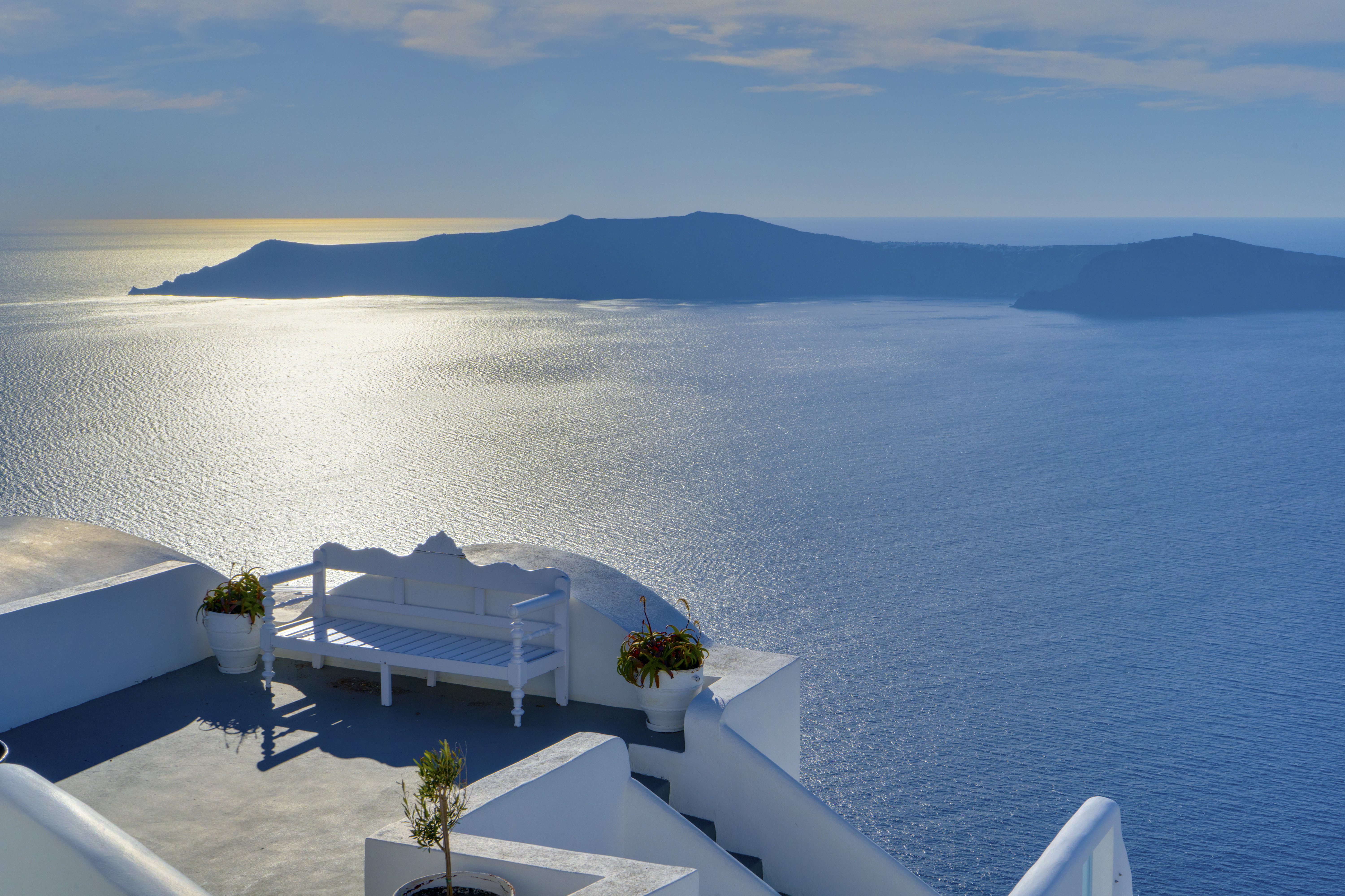 This is an amazing view of the Aegean from the top of Caldera at Oia. Looking at it feels like living in a dream at the edge of a cliff. Photo taken April 2019.